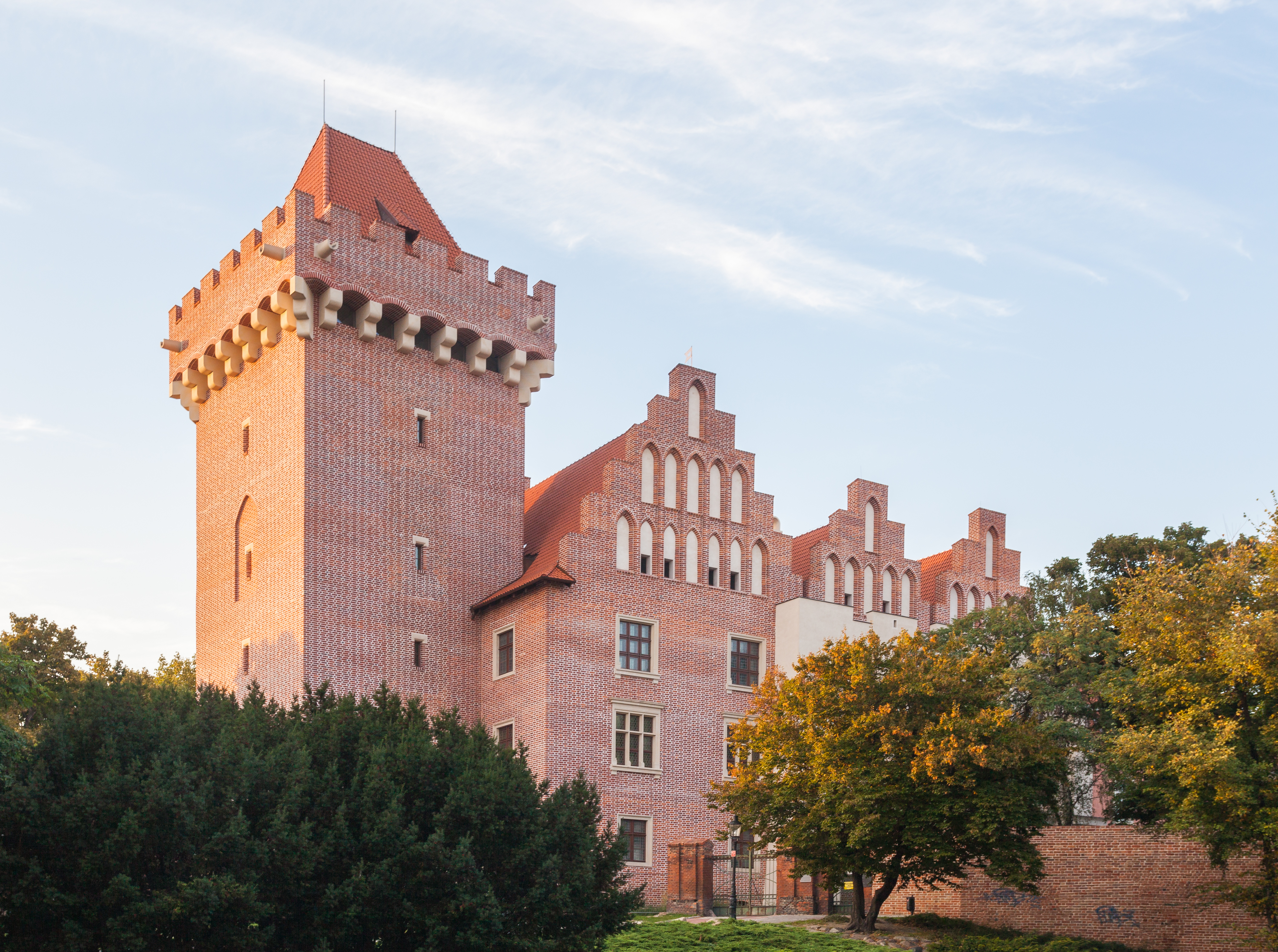 Royal castle, Poznan, Poland